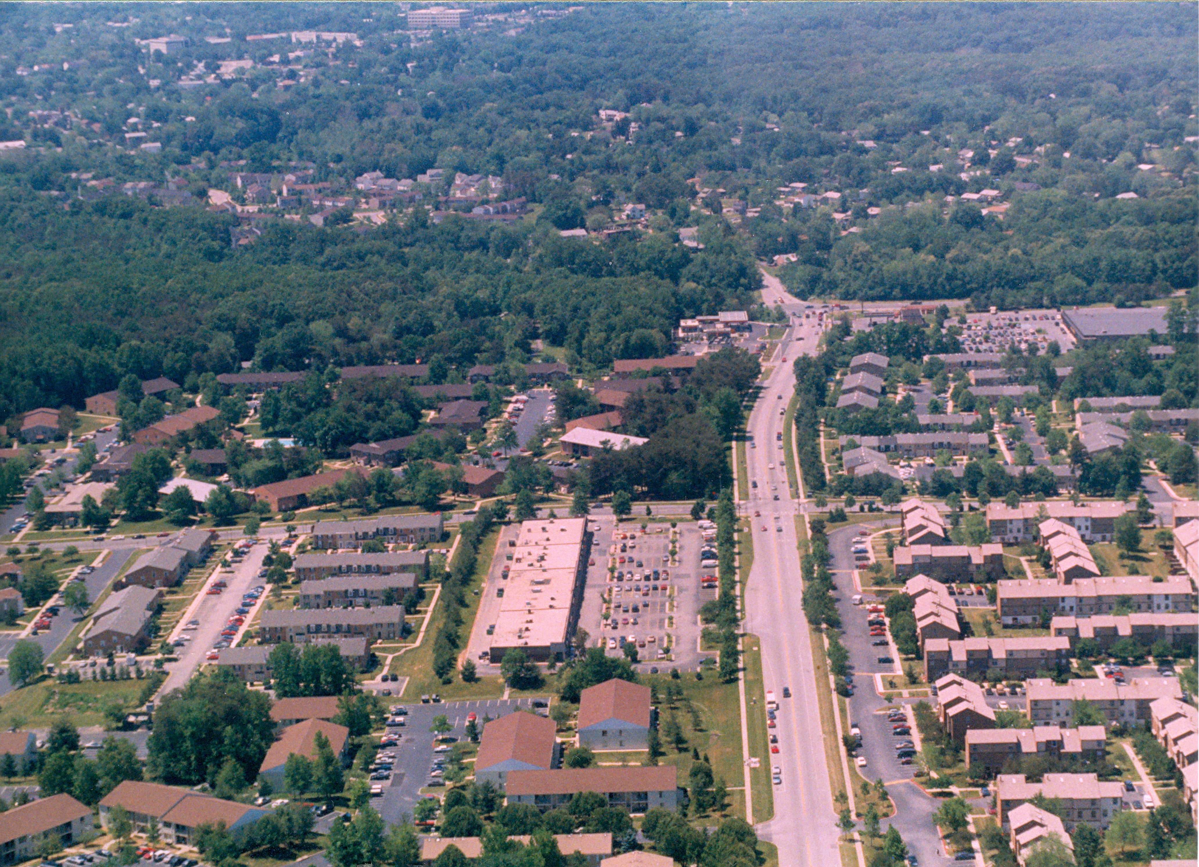 North Laurel, Maryland in August 1998. All Saints Road looking southwest from approximately Whiskey Bottom Road (not shown). Apparently, from bottom: Whiskey Bottom Apartments (bottom left); strip mall at 9501 All Saints Rd.; N. Laurel Rd. Further down, just before disappearing into the trees: intersection with Maryland Route 216.